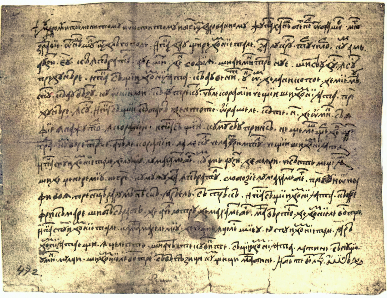 Neacșu's Letter, written in 1521, is the oldest surviving document available in Romanian. A copy is kept at the Museum of Printing and Old Romanian Books in Târgoviște, Romania. A transcription is available on Wikisource, at The letter of Neacșu of Câmpulung.